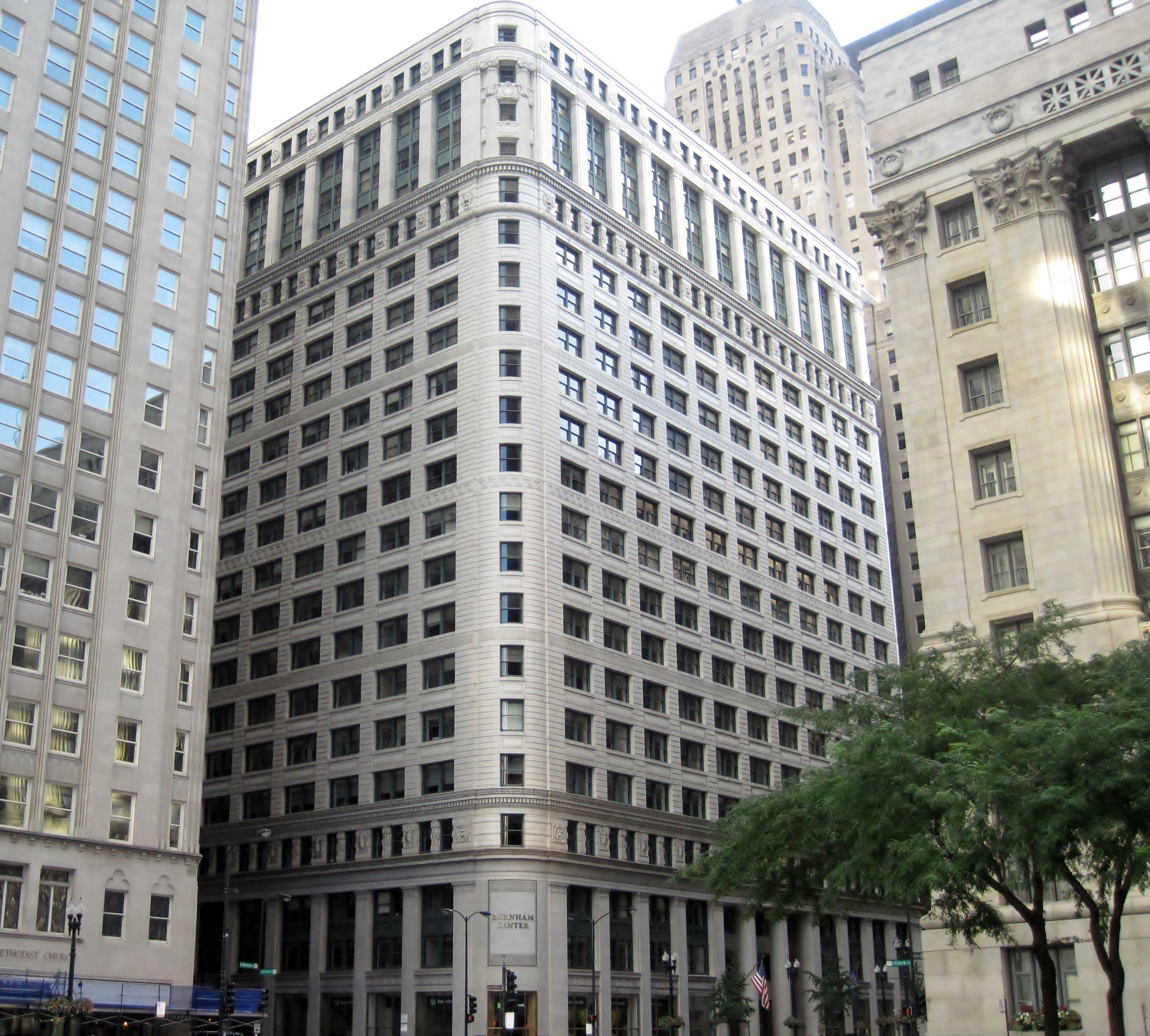 The Conway Building in Chicago (1915). It was designed by D. H. Burnham & Co. in 1912 and completed three years later. It was the last building to come from Burnham's office before his death. Burnham's former senior designer Frederick Dinkelberg is generally credited with the design. Although Dinkelberg was no longer with the firm, he was entrusted to its design because of his experience, and because the firm did not want to disappoint wealthy client Marshall Field.